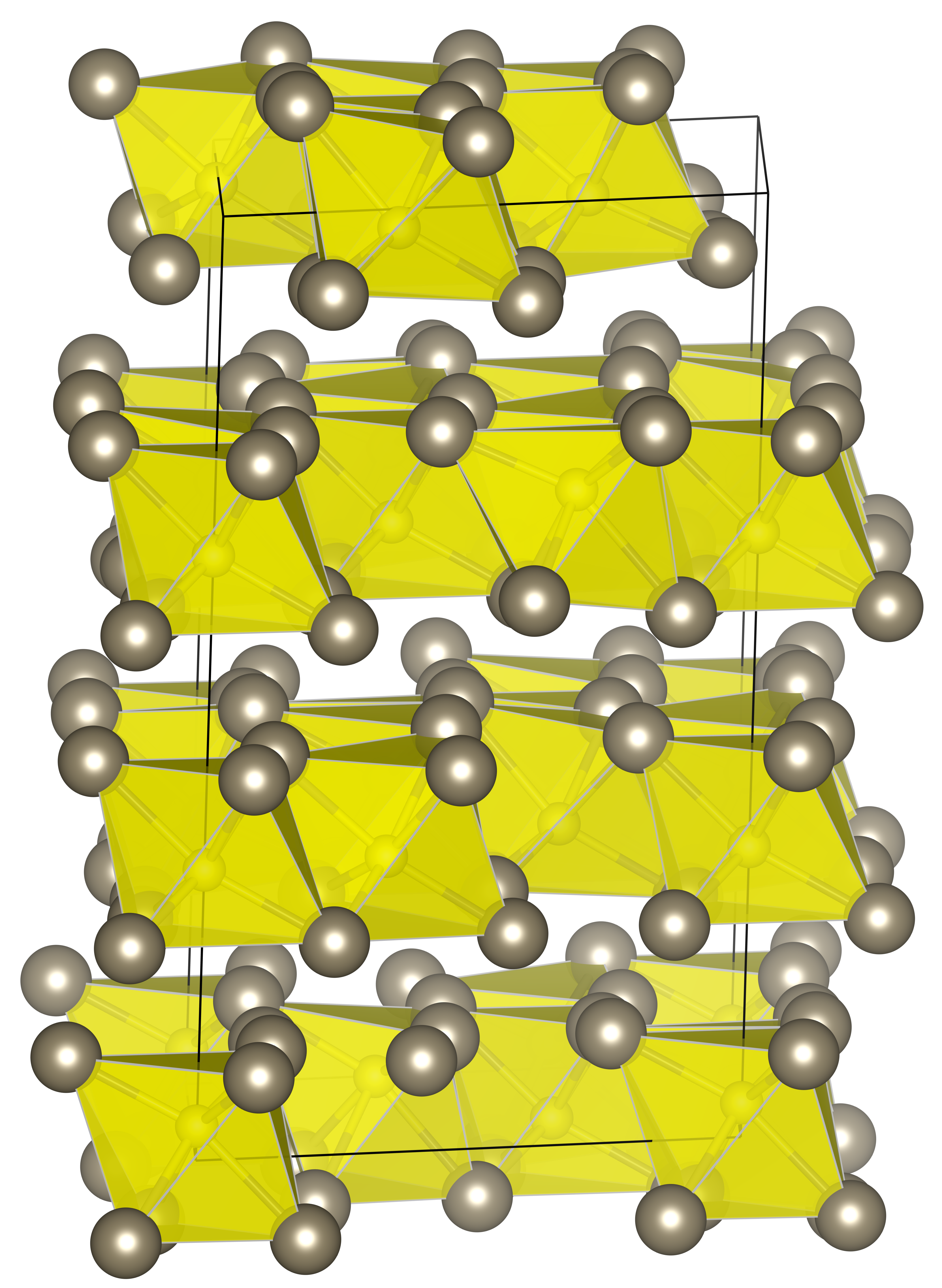 Unit cell of thallium(I) sulfide. Created with VESTA. Source of crystal structure